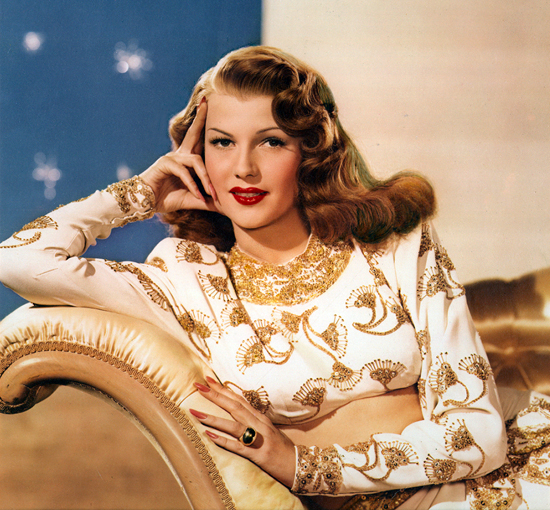 Promotional photograph of Rita Hayworth for the 1946 film Gilda